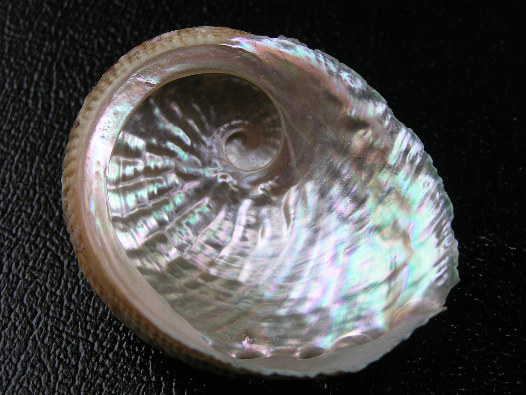 Haliotis cyclobates Péron & Lesueur, 1816; family Haliotidae; South Australia